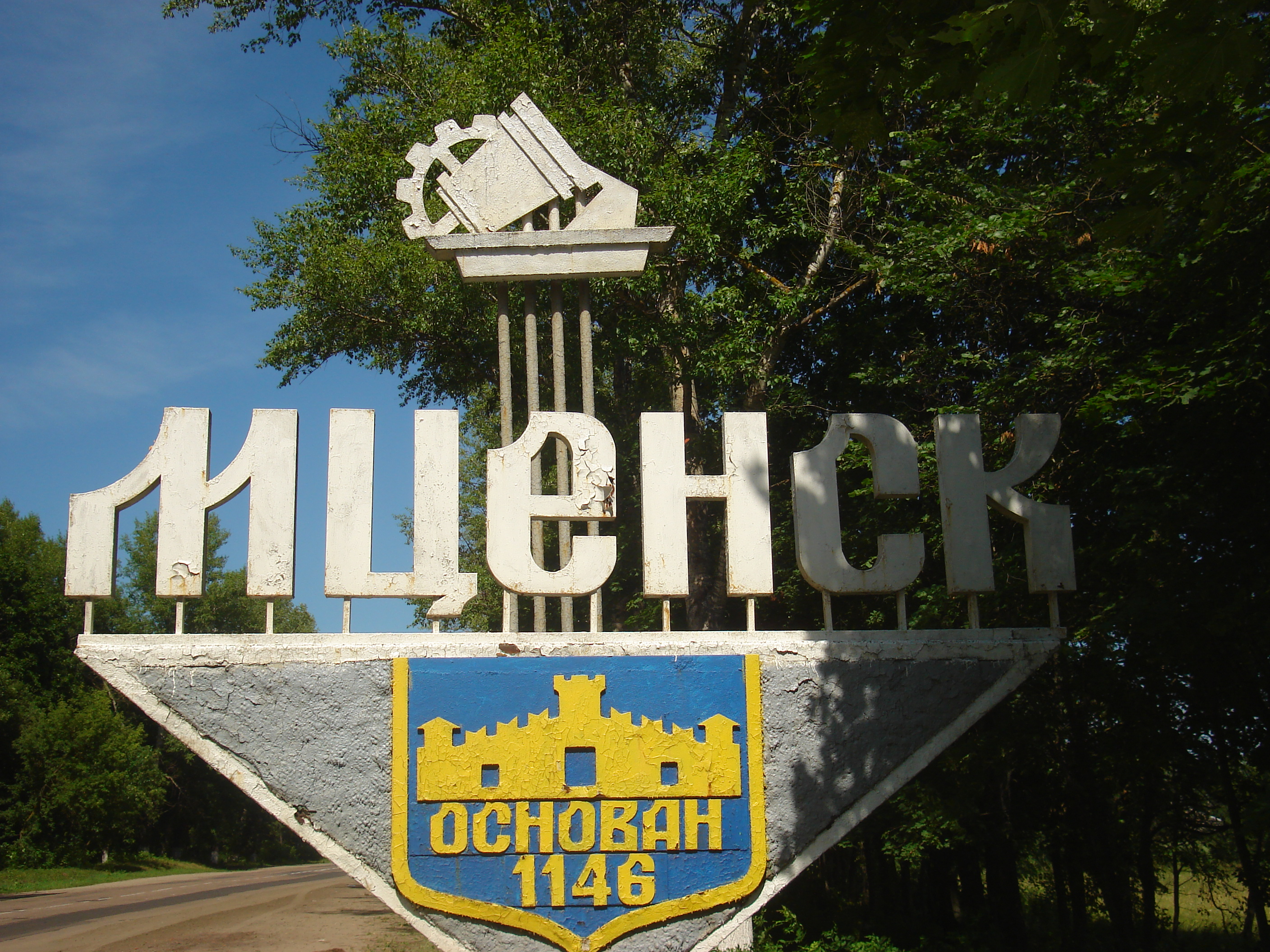 The entrance to the city